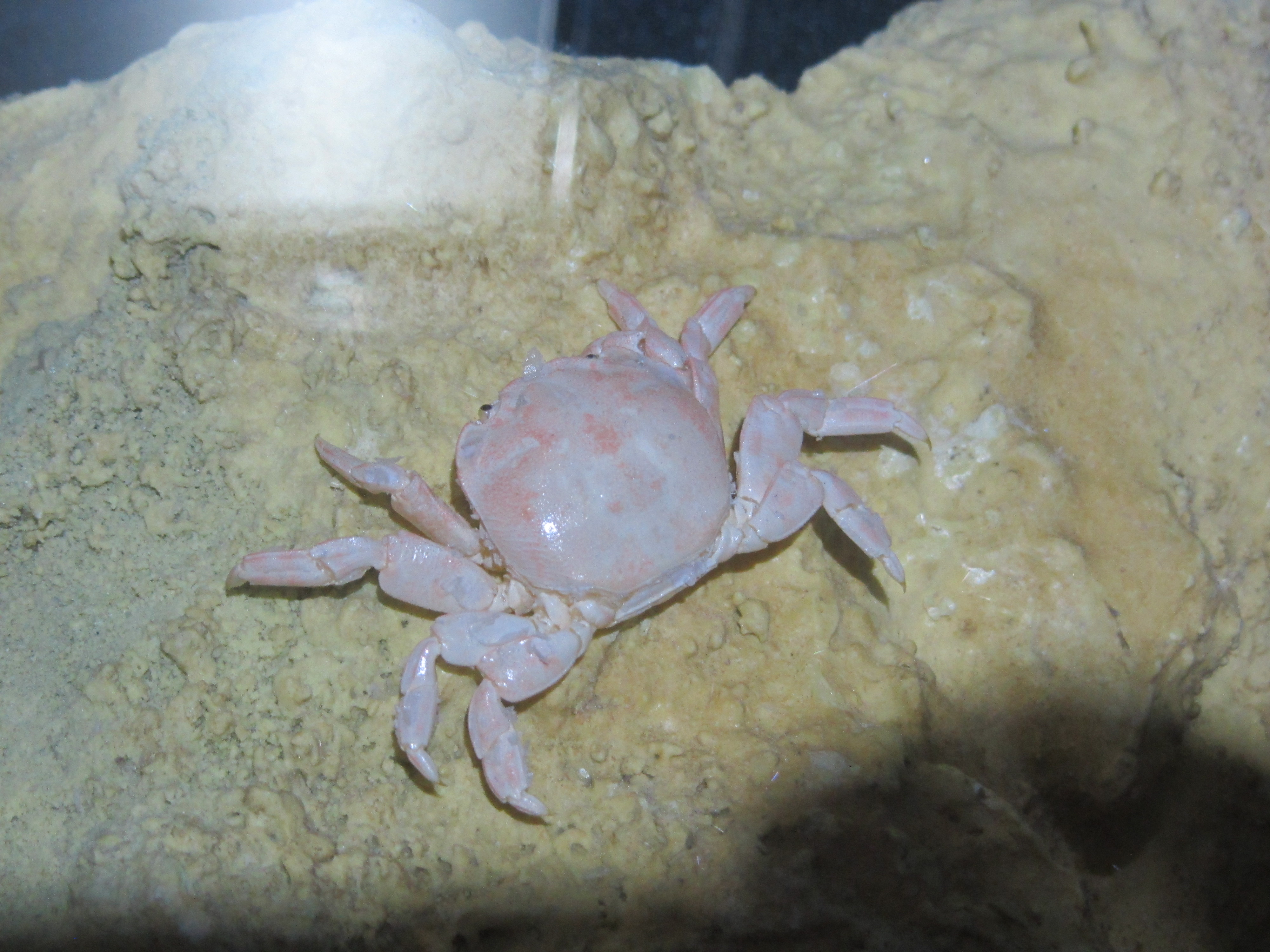 Specimen of Xenograpsus testudinatus